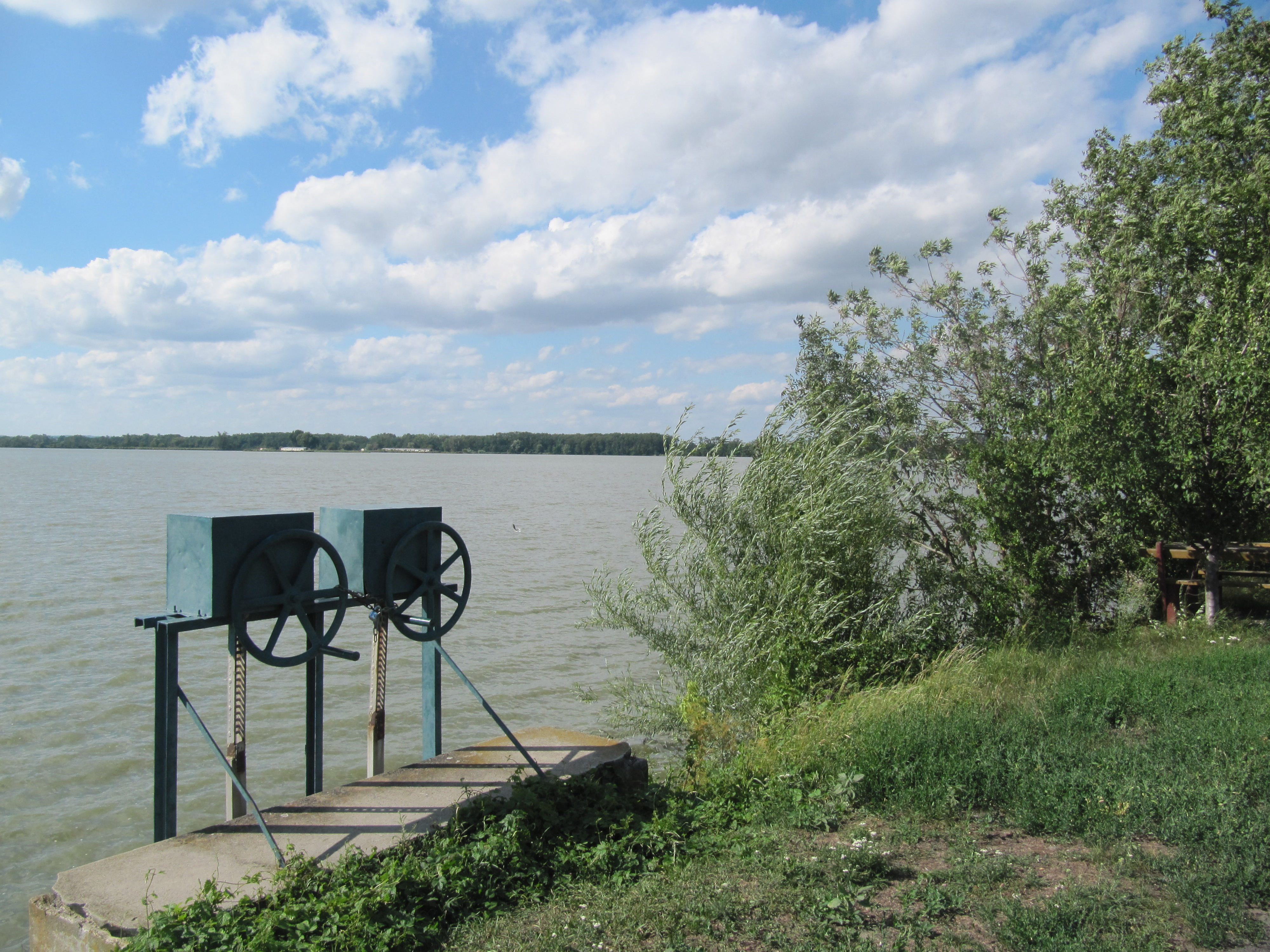 Jaroslavice in Znojmo District, Czech Republic. Pond Dolní Jaroslavický rybník.